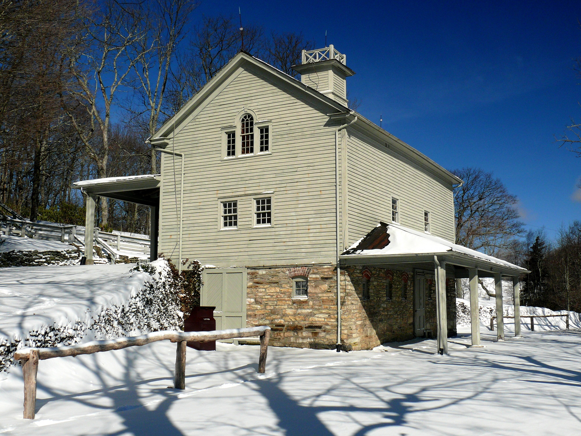 The carriage house at Moses H. Cone Memorial Park, near the town of Blowing Rock on the Blue Ridge Parkway. Photo taken with a Panasonic Lumix DMC-FZ50 in Watauga County, NC, USA. Cropping and post-processing performed with The GIMP.